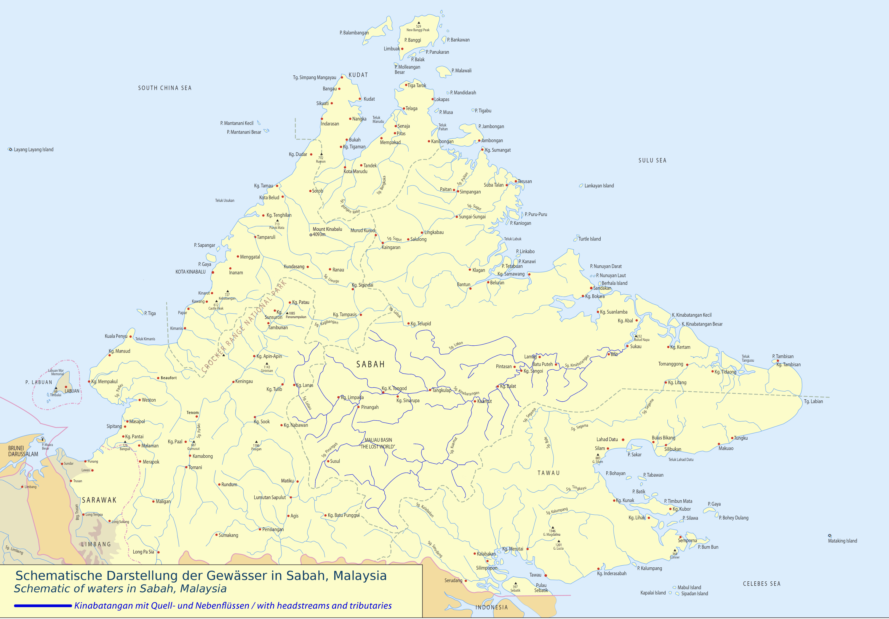 Schematic of waters in Sabah, Malaysia: KINABATANGAN with headstreams and tributaries